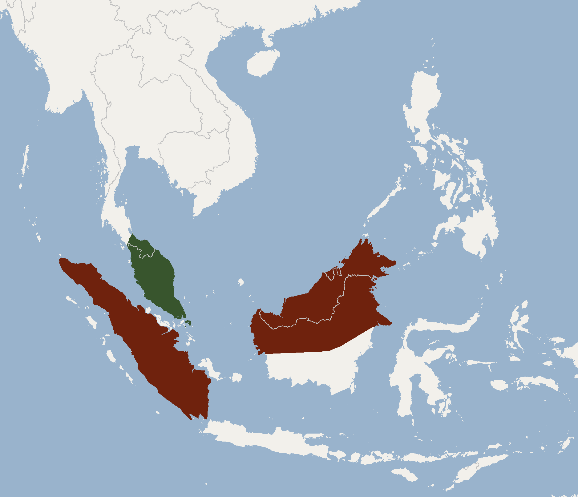 According to Maryanto, 2003